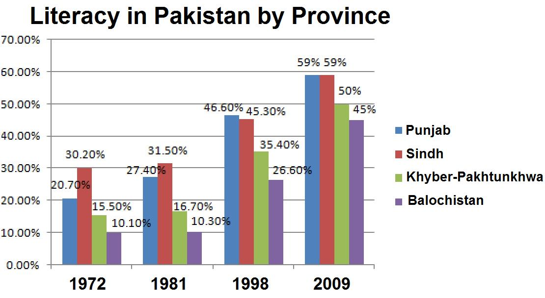 Literacy Rates over time by provinces